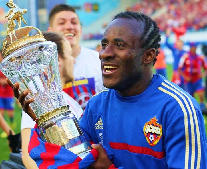 Seydou Doumbia 2014